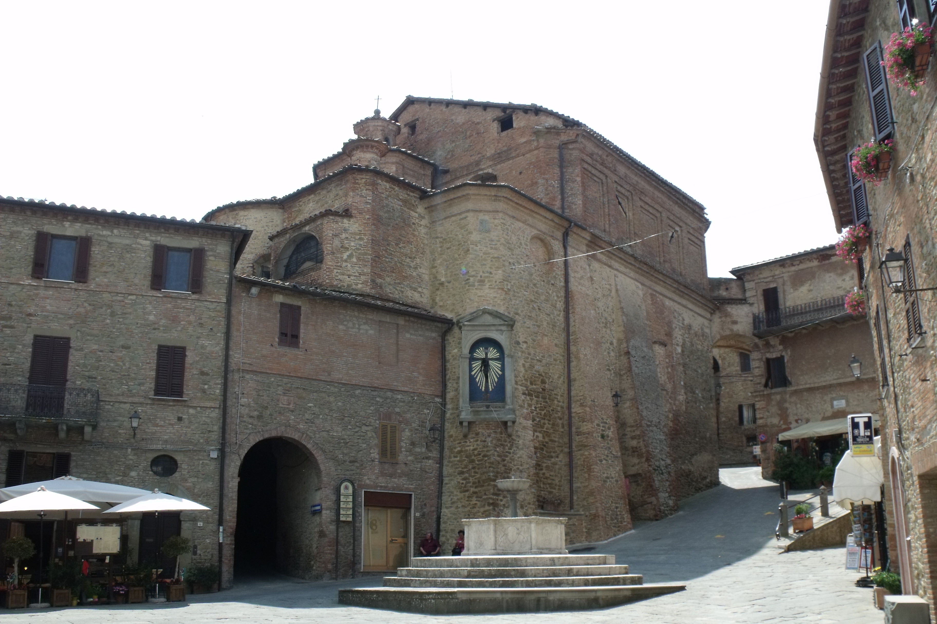 Backside of the Church San Michele Archangelo on Piazza Umberto I. in Panicale, Province of Perugia, Umbria, Italy